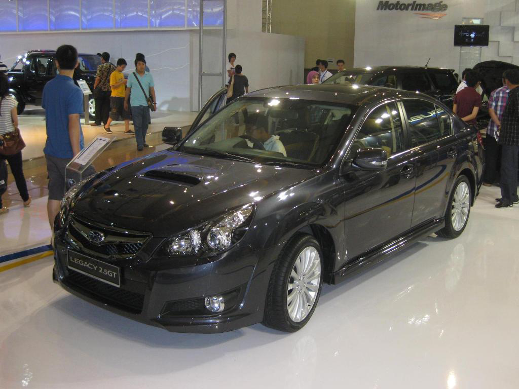 2010 Subaru Legacy 2.5GT (BM) shown in Graphite Grey Metallic, photographed at the 2010 Indonesia International Motor Show in Jakarta.